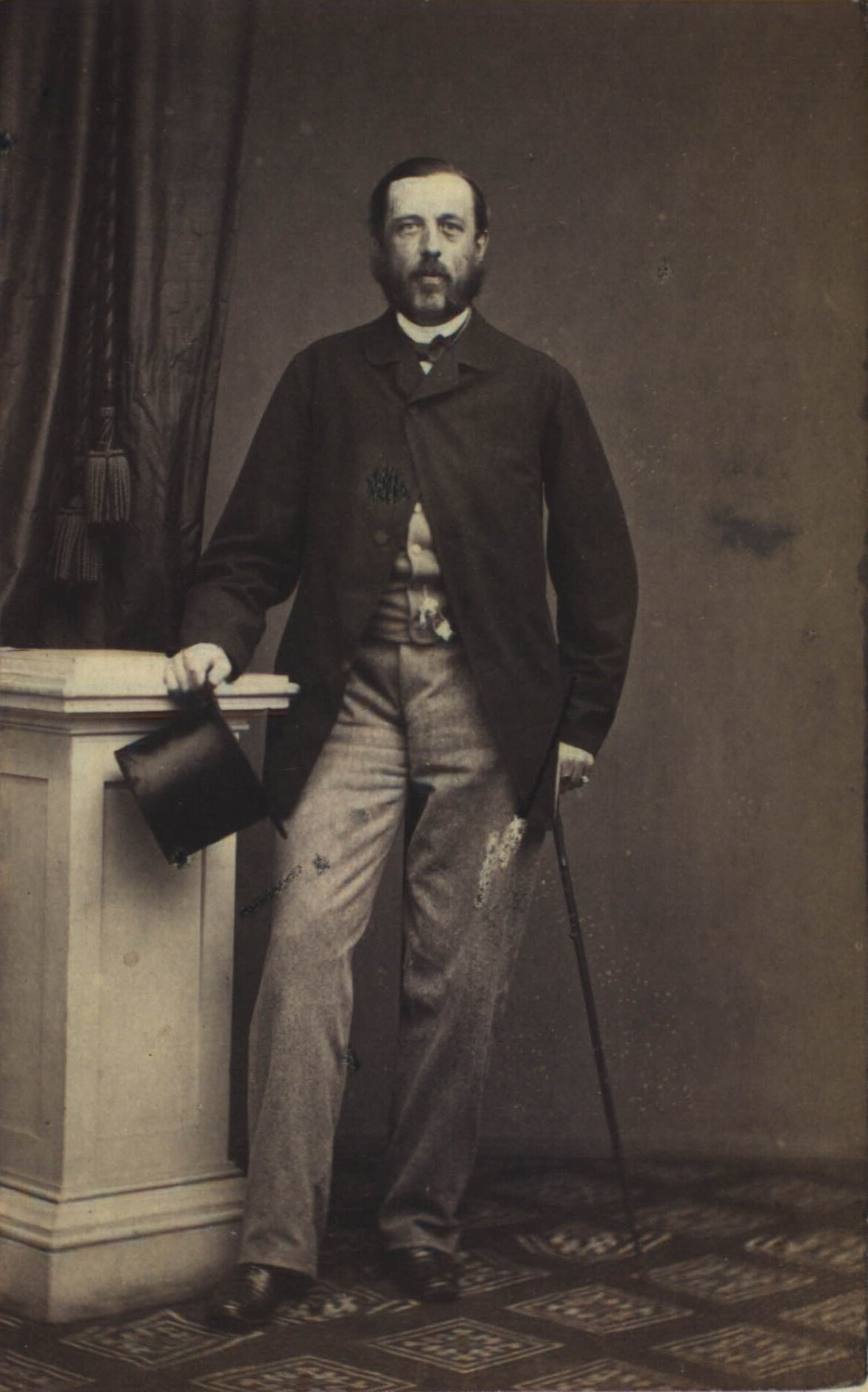 Portrait of Ernst Frederik Düring-Rosenkrantz (1830-1890), Danish Baron, army officer and landowner